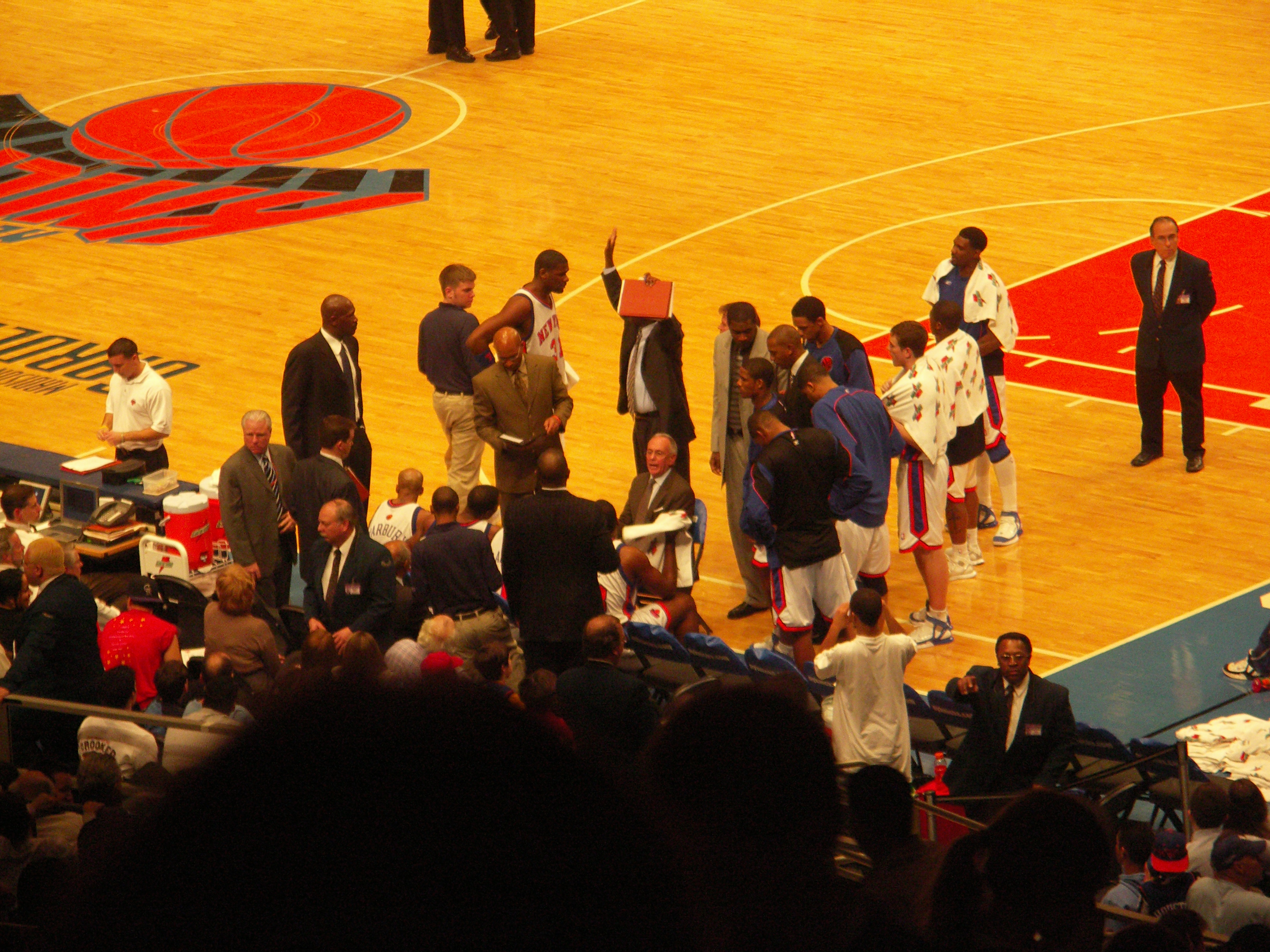 New York Knicks players at the bench in 2005 with coach Larry Brown